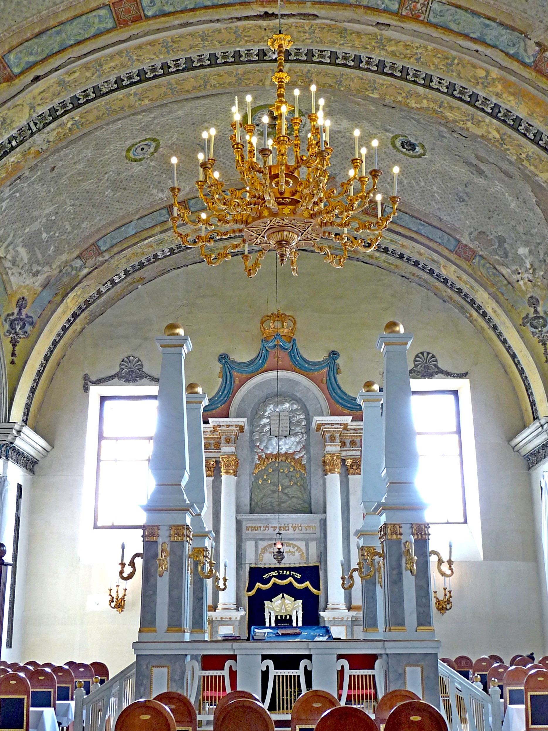 The interior of the synagogue in Óbuda from the entrance.